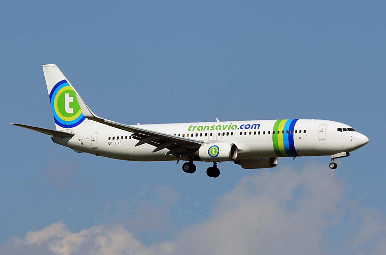 Landing EHAM on 18R